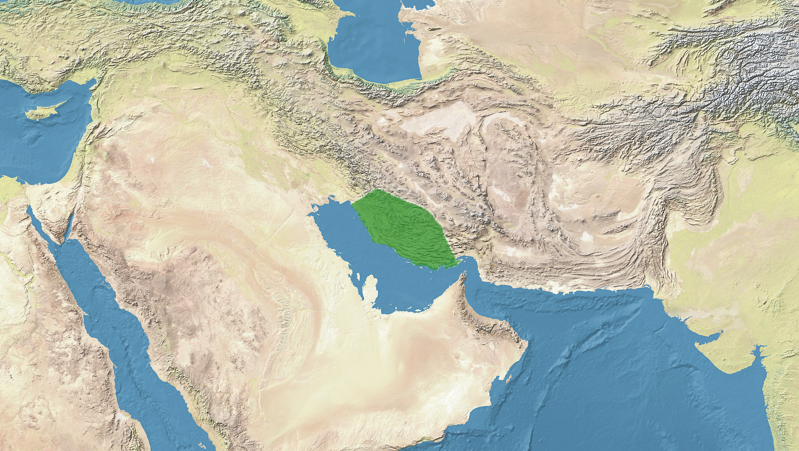 Map of the domain of the Kings of Persis (geographical)